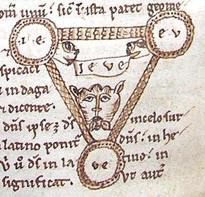 A diagram on the Tetragrammaton (divine four-letter name) YHWH (Hebrew יהוה) — or "IEVE" as it's transcribed into the Latin language here — as a foundation of the Christian Trinity. This is taken from a 12th-century manuscript of the ca. 1109 A.D. work Dialogi Contra Iudaeos ("Dialogues against the Jews") by Petrus Alphonsi / Petrus Alfonsi / Peter Alfonsi (a convert to Christianity from Judaism). The diagram shows the three persons of the Christian Trinity assigned to the three possible consecutive two-letter sequences of the Tetragrammaton YHWH / IEVE — namely IE, EV, and VE. These three sequences are in three circular nodes, connected to each other by three lines making a triangle. In the center, supported by fanciful animals, is a scroll with the complete Tetragrammaton. (The fanciful animals would not have been present in Petrus Alfonsi's original version of the diagram, but were probably a personal decorative addition by the scribe who copied out this particular manuscript of the Dialogues.) The current-day relevance of this diagram is mainly that it influenced the development of the later "Shield of the Trinity" or "Scutum Fidei" diagram, as well as influencing Joachim of Fiore's own different IEUE interlaced circles diagram (which in turn led to the use of the Borromean rings as a symbol of the Christian Trinity).[1]